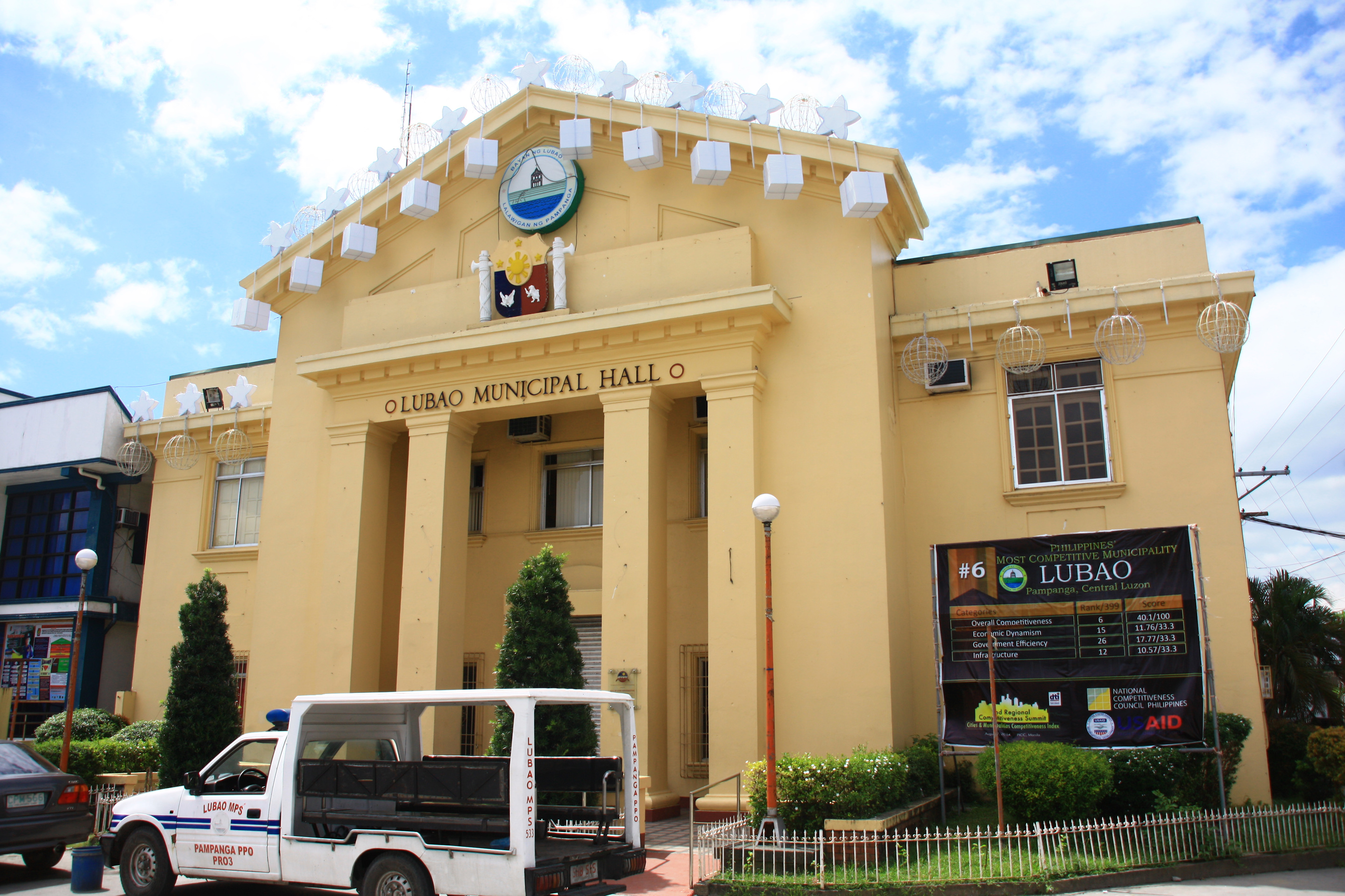 Lubao Municipal Hall